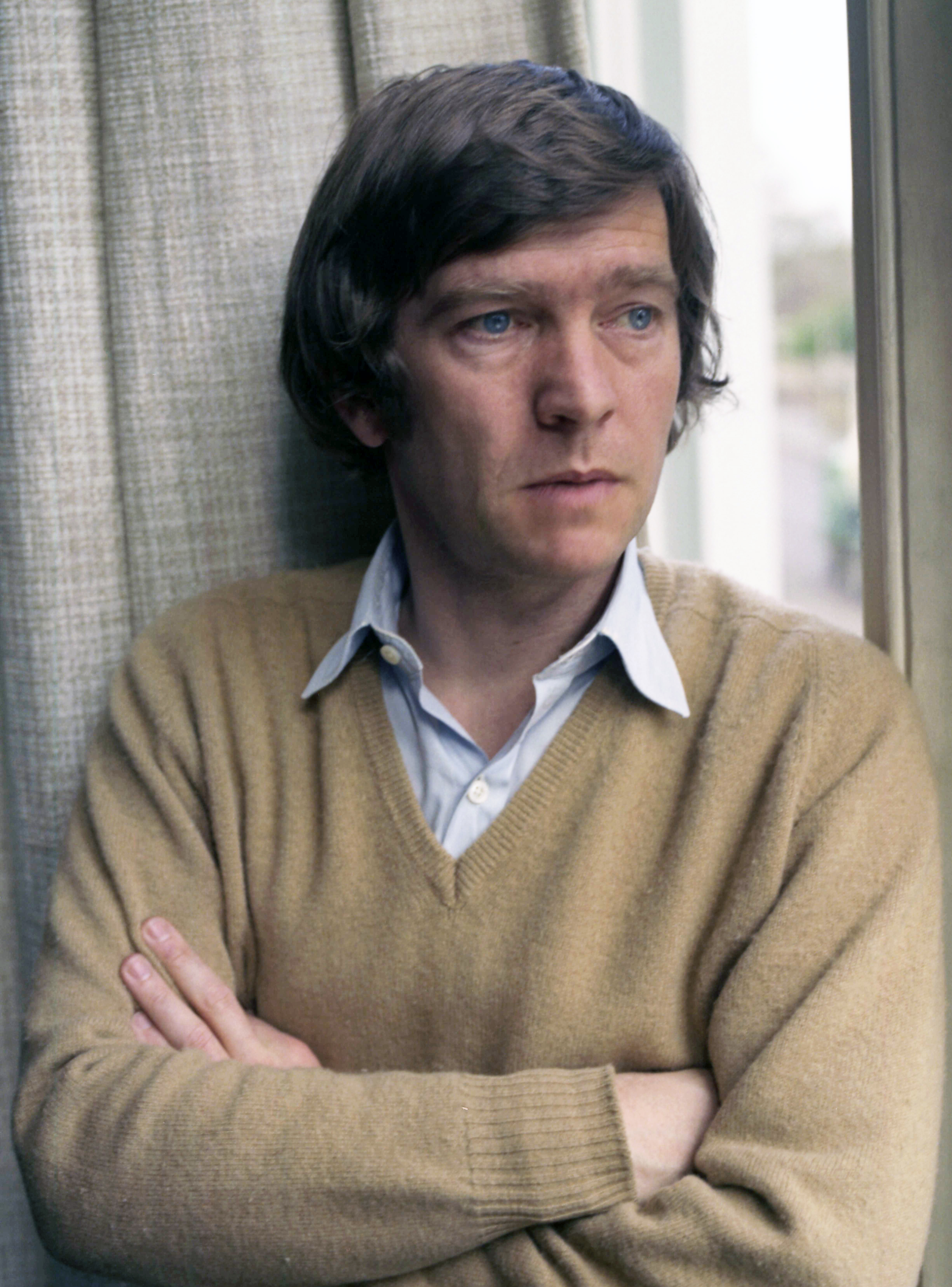 Sir Thomas Courtenay taken at his home in London